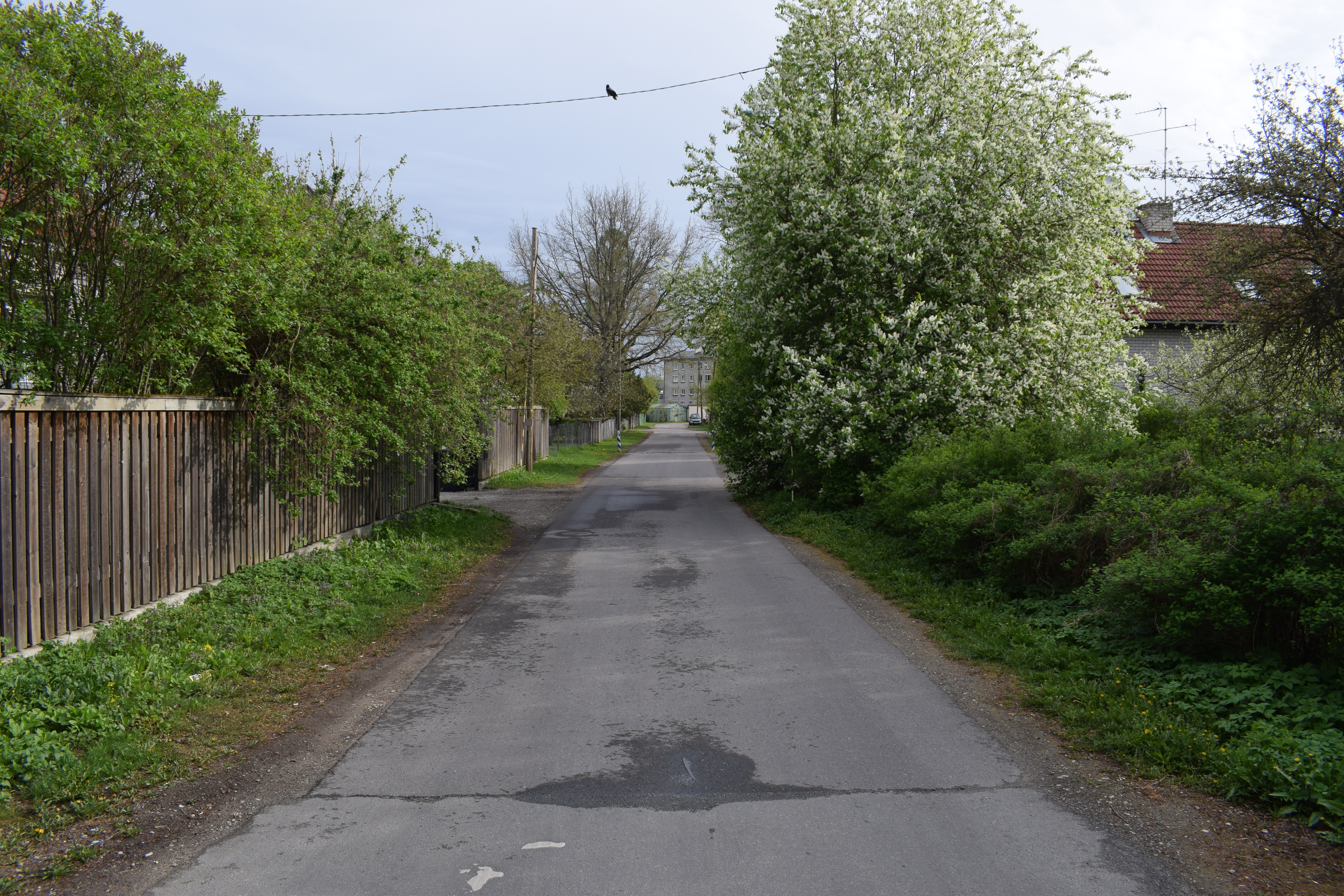 Kukulinnu tänav